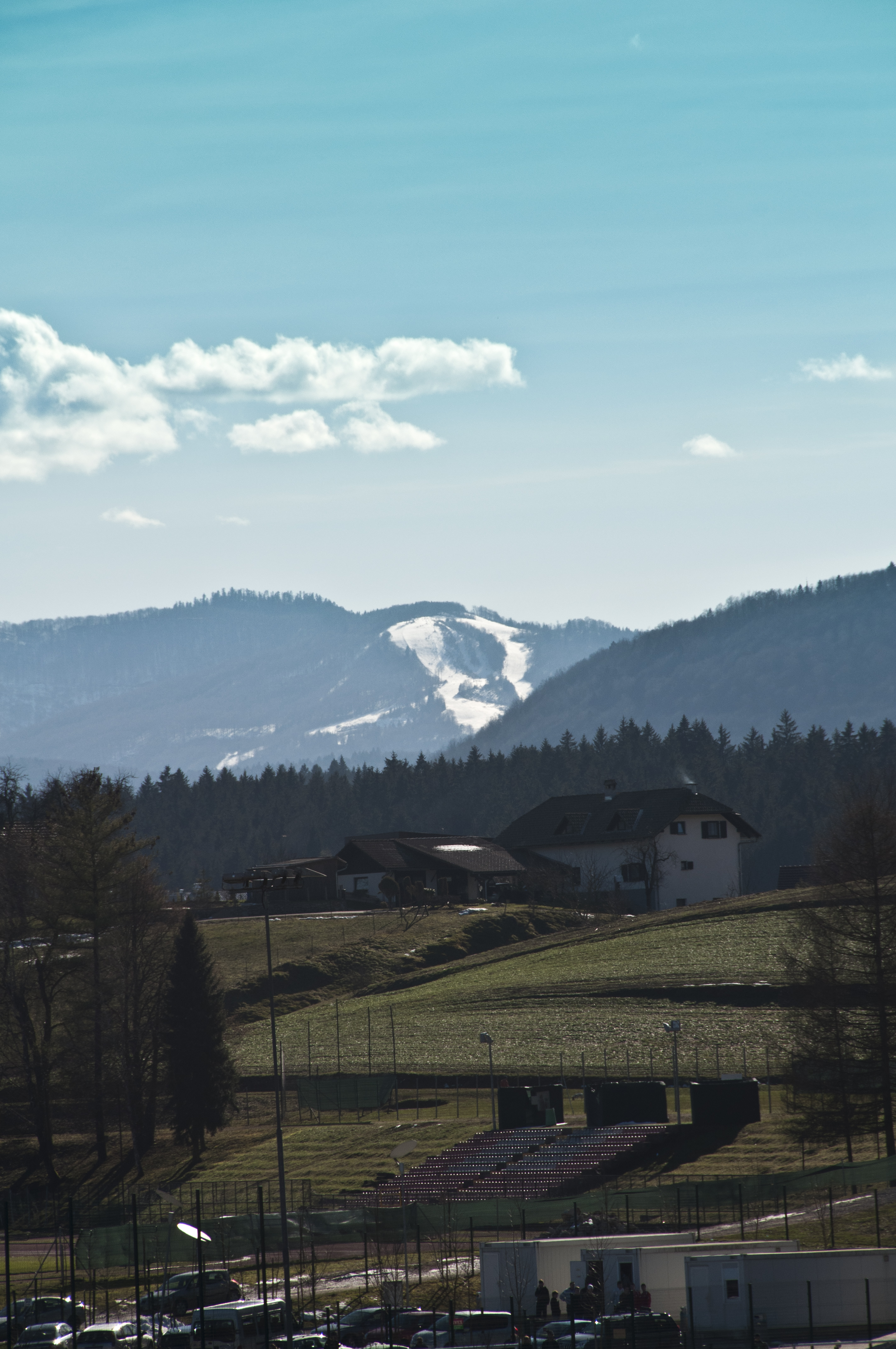 Ski center Bela in Slovenia